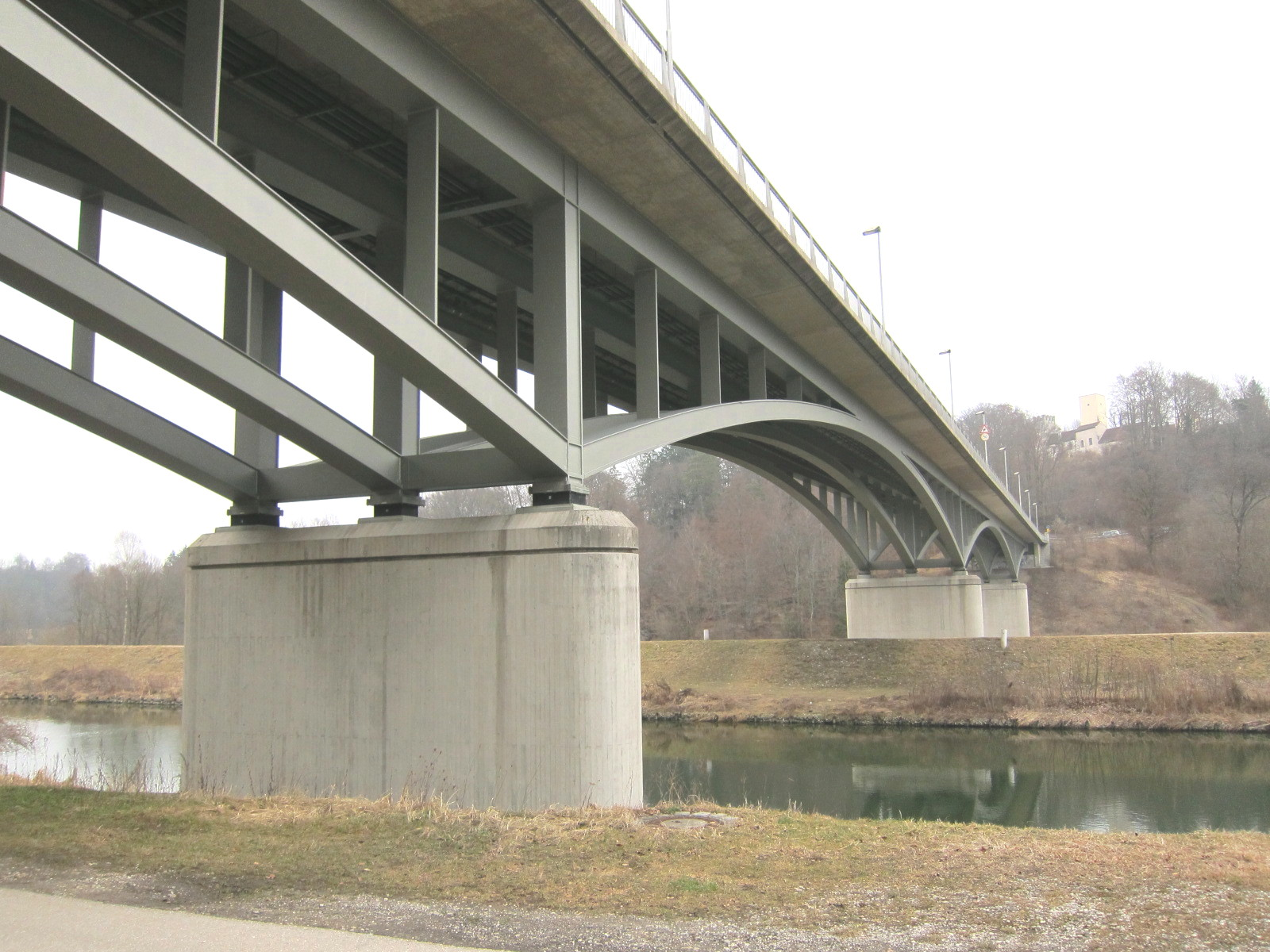 Isar Bridge, Gruenwald near Munich, Germany